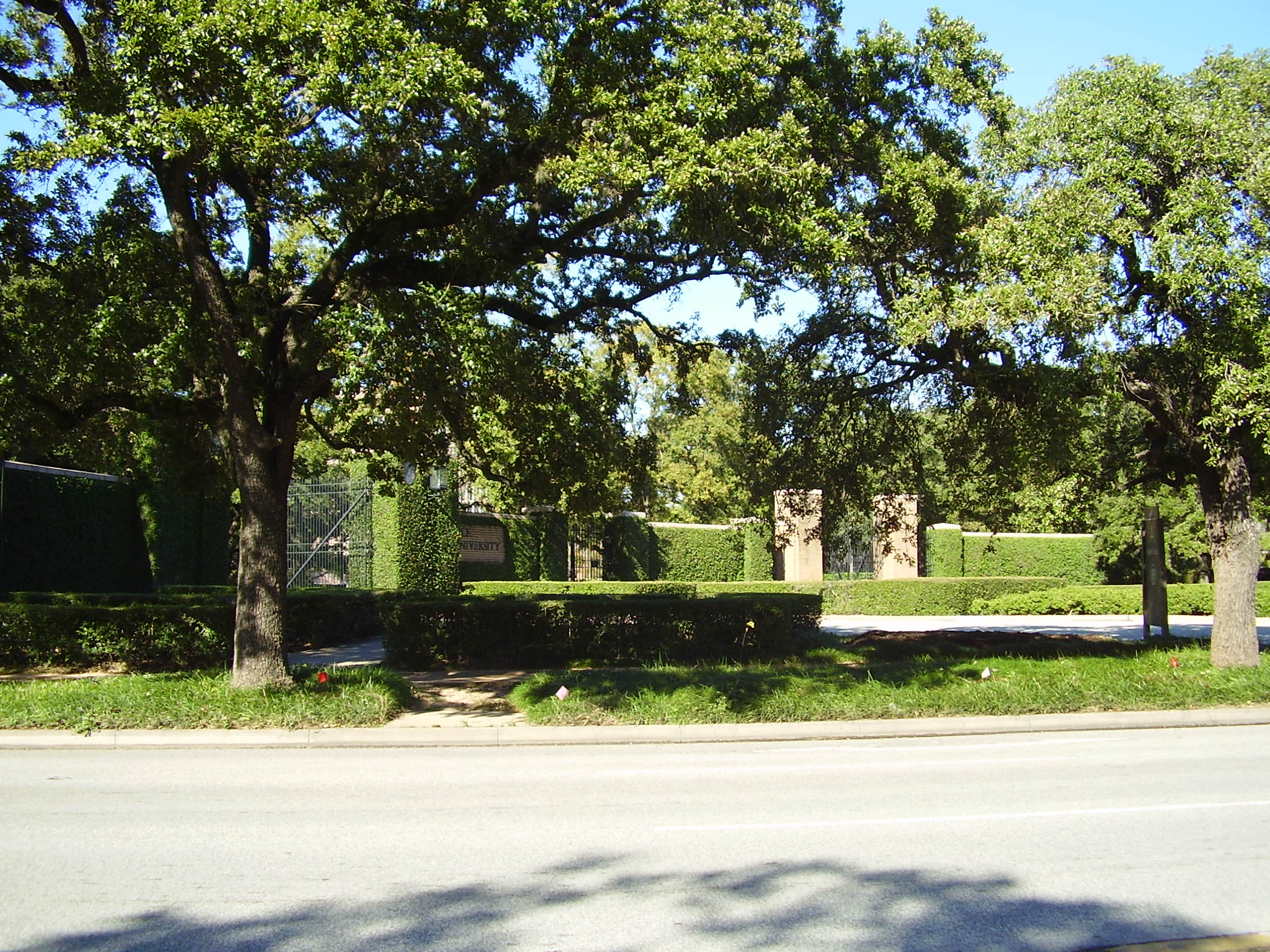 The entrance to Rice University